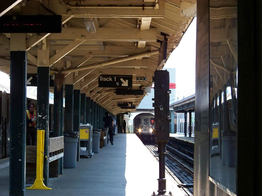 View of the 242nd Street Station from the exit